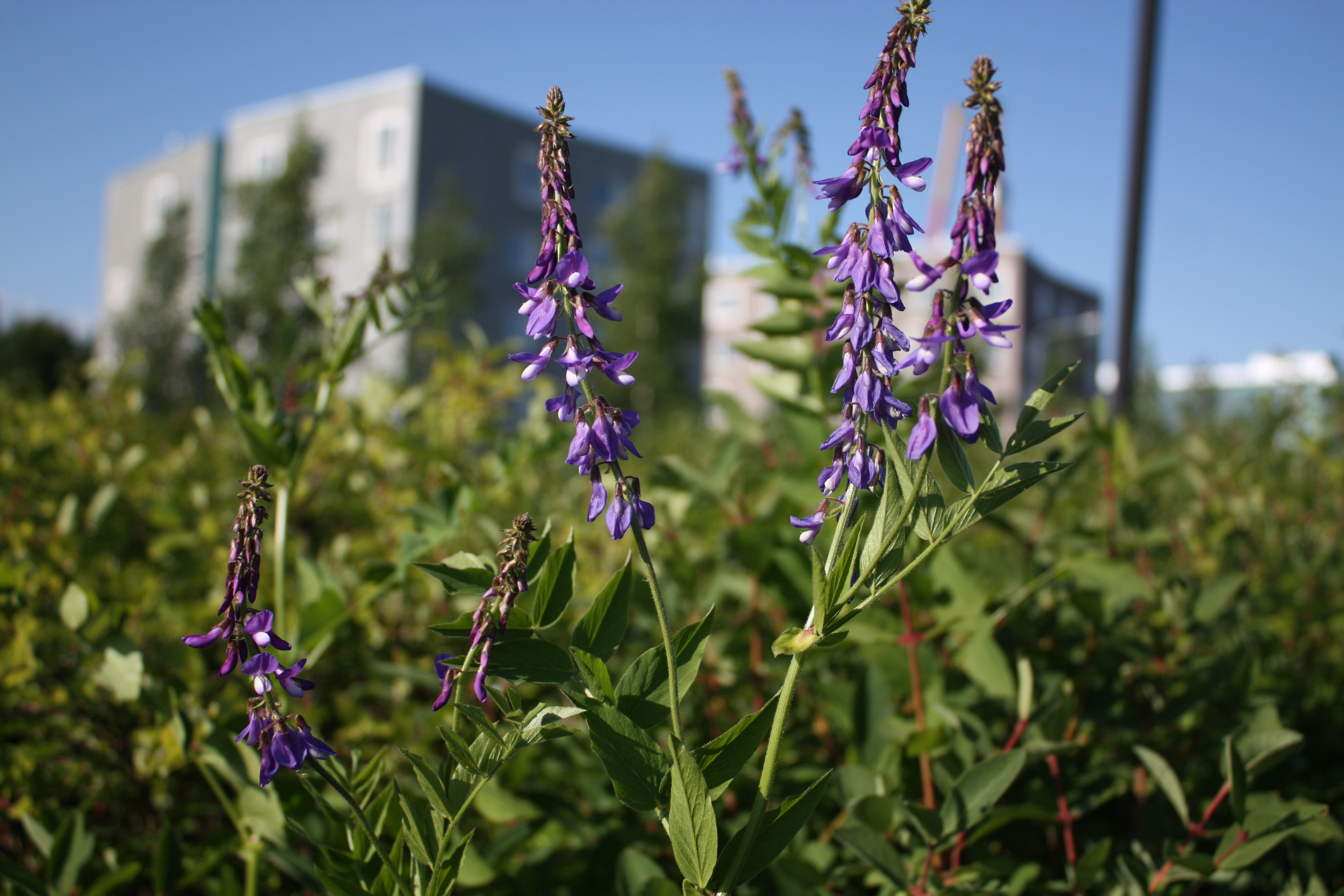 Galega orientalis is flowering amidst the bushes in Gardenia-Helsinki Botanical Garden in Finland.